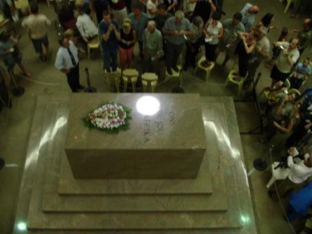 A ray of light strikes the cenotaph in the Voortrekker Monument, Pretoria. The cenotaph is the symbolic tomb of Piet Retief and his delegation, who were murdered in 1838. The monument is designed to cast a ray of light on the cenotaph's wording on the Day of the Vow, December 16